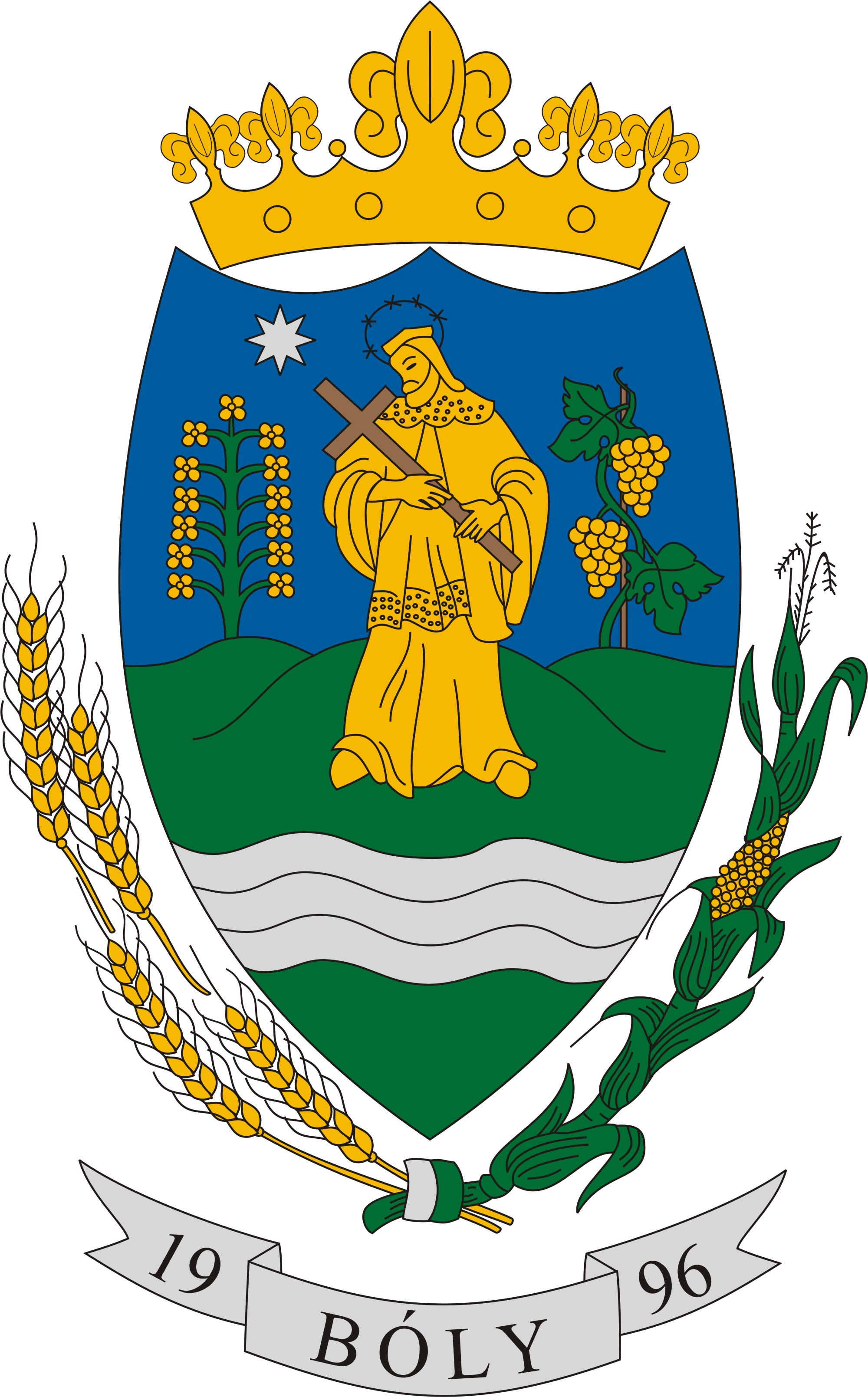 Coat of arms of Bóly, Hungary